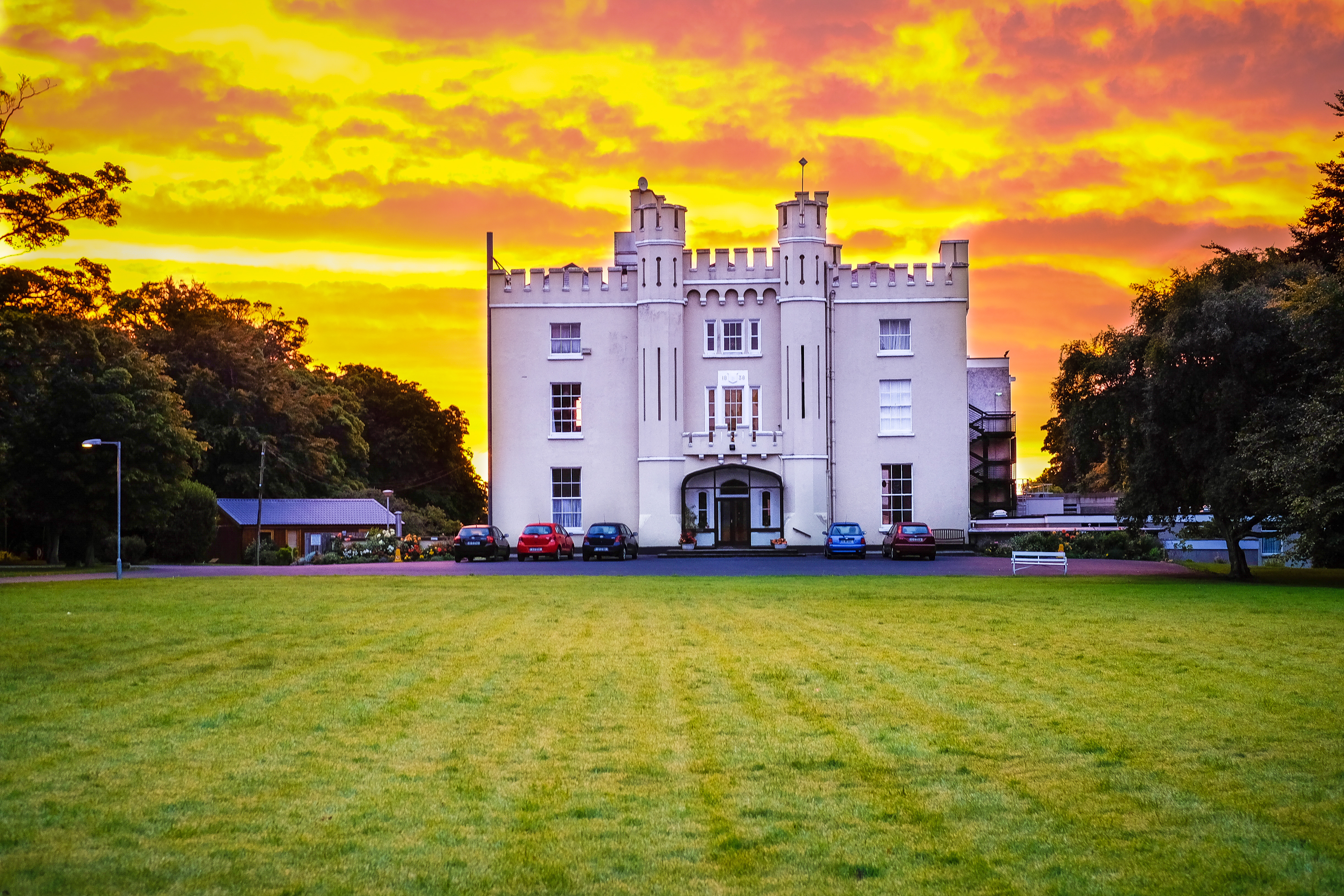 Manresa House Jesuit Spirituality Centre in Dollymount, Dublin, Republic of Ireland.